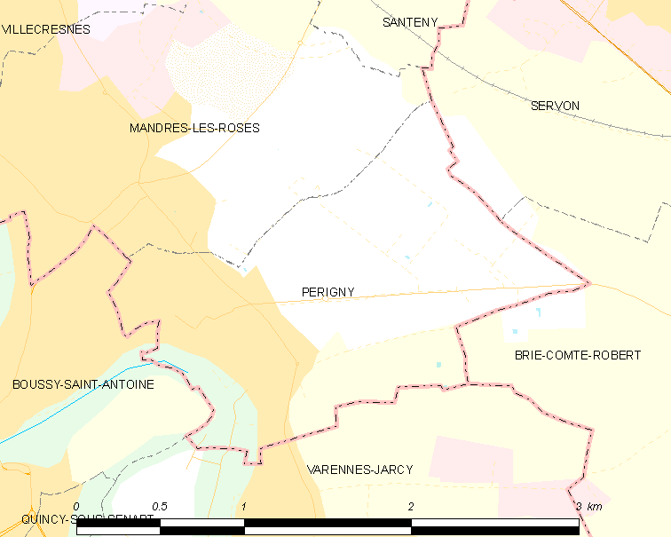 Map of French municipality Périgny